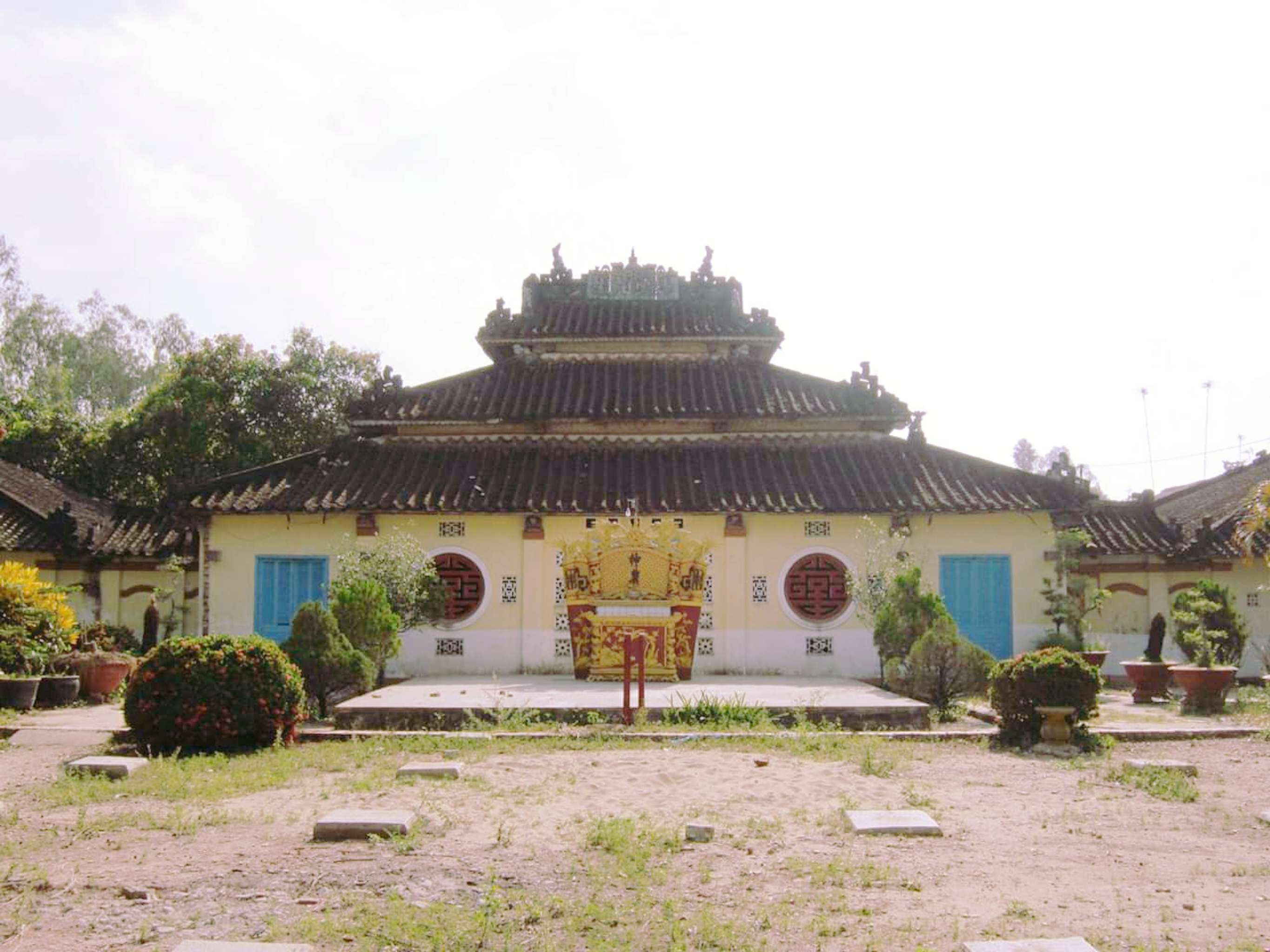 Dinh Yen temple